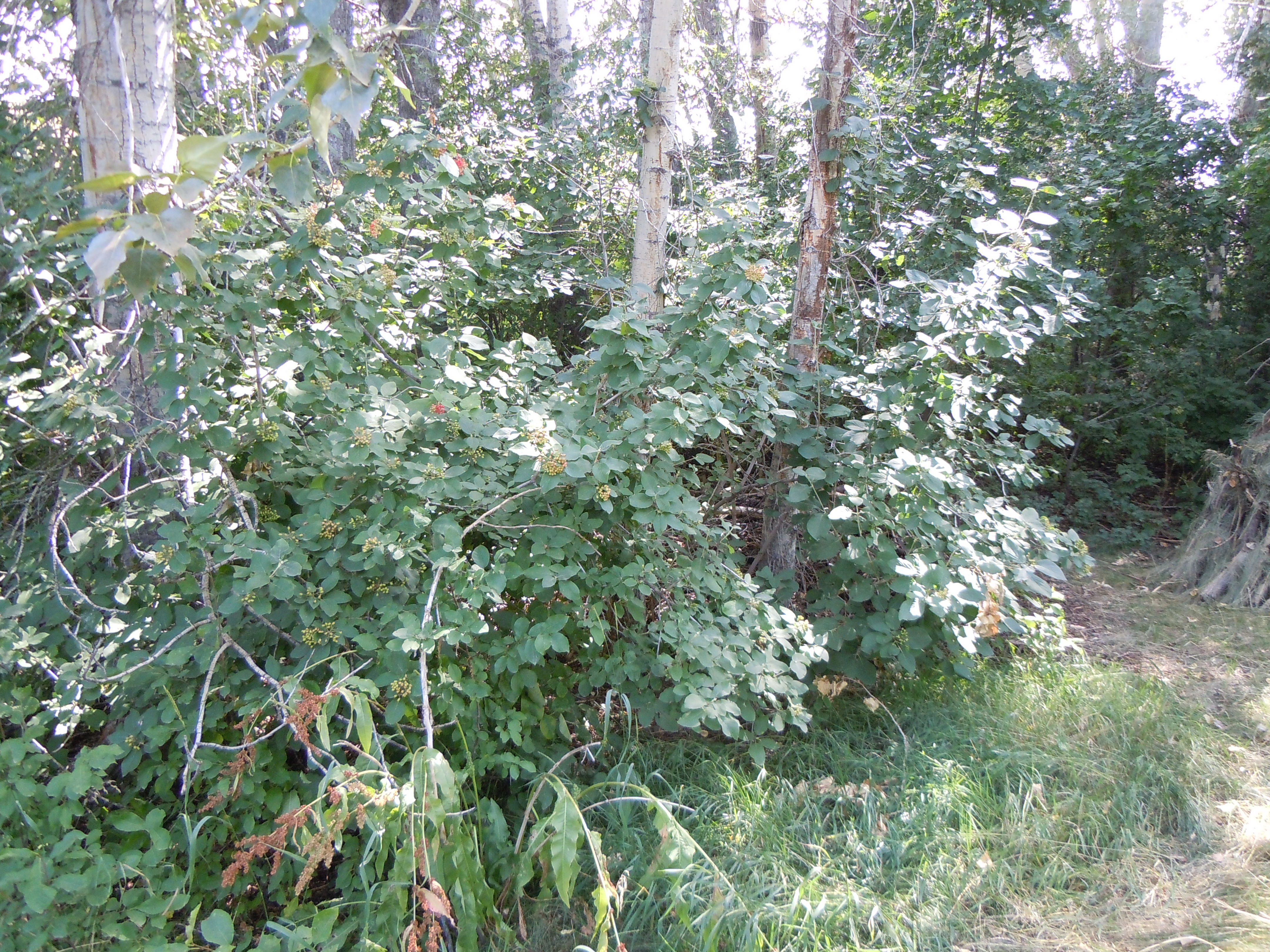 Wayfaringtree seems to be more and more common as an escaped ornamental.